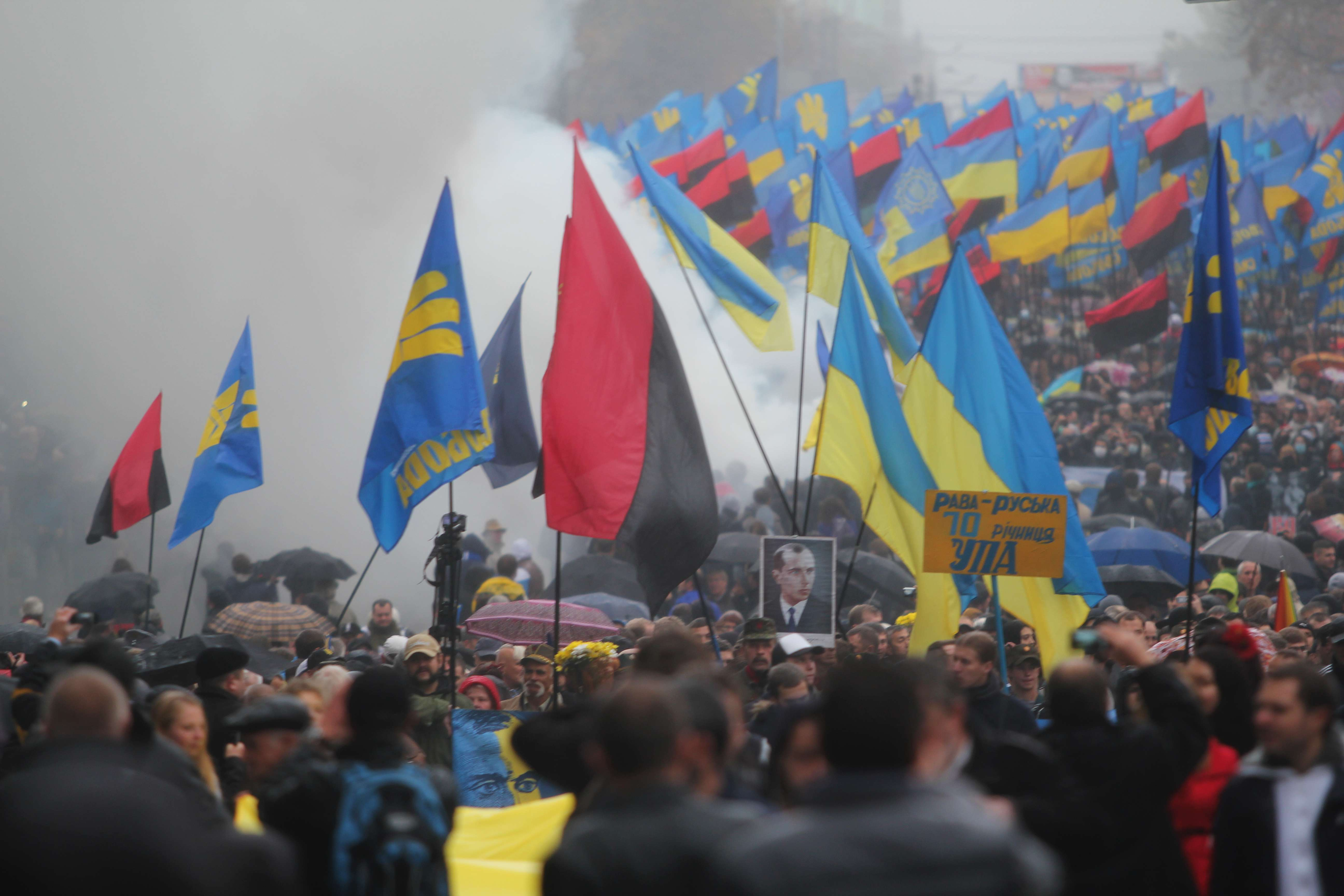 2012 UPA March in Kiev, 14 October 2012.